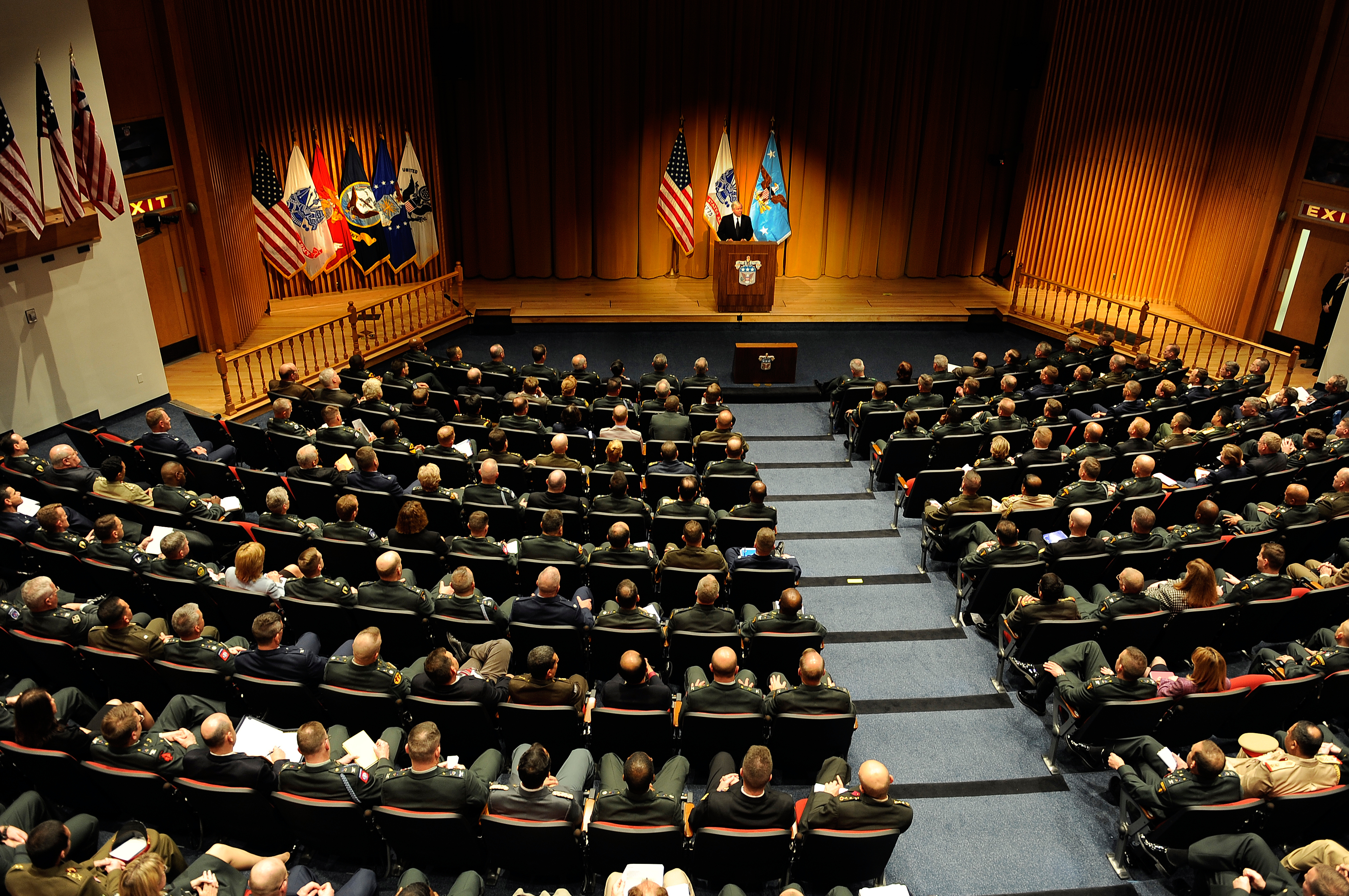 Defense Secretary Robert M. Gates delivers remarks to students at the U.S. Army War College in Carlisle Barracks, Pa., April 16, 2009. Gates is on a four-day trip to talk to attendees of the military's war colleges. DoD photo by U.S. Air Force Master Sgt. Jerry Morrison See more at Army.mil